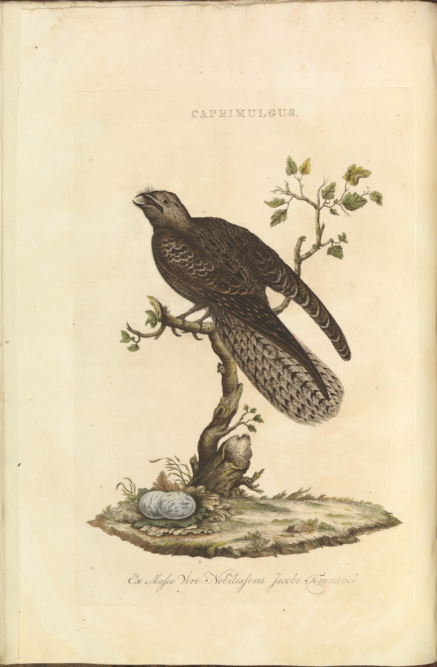 Plate 21 from the Nederlandsche vogelen by Nozeman and Sepp.